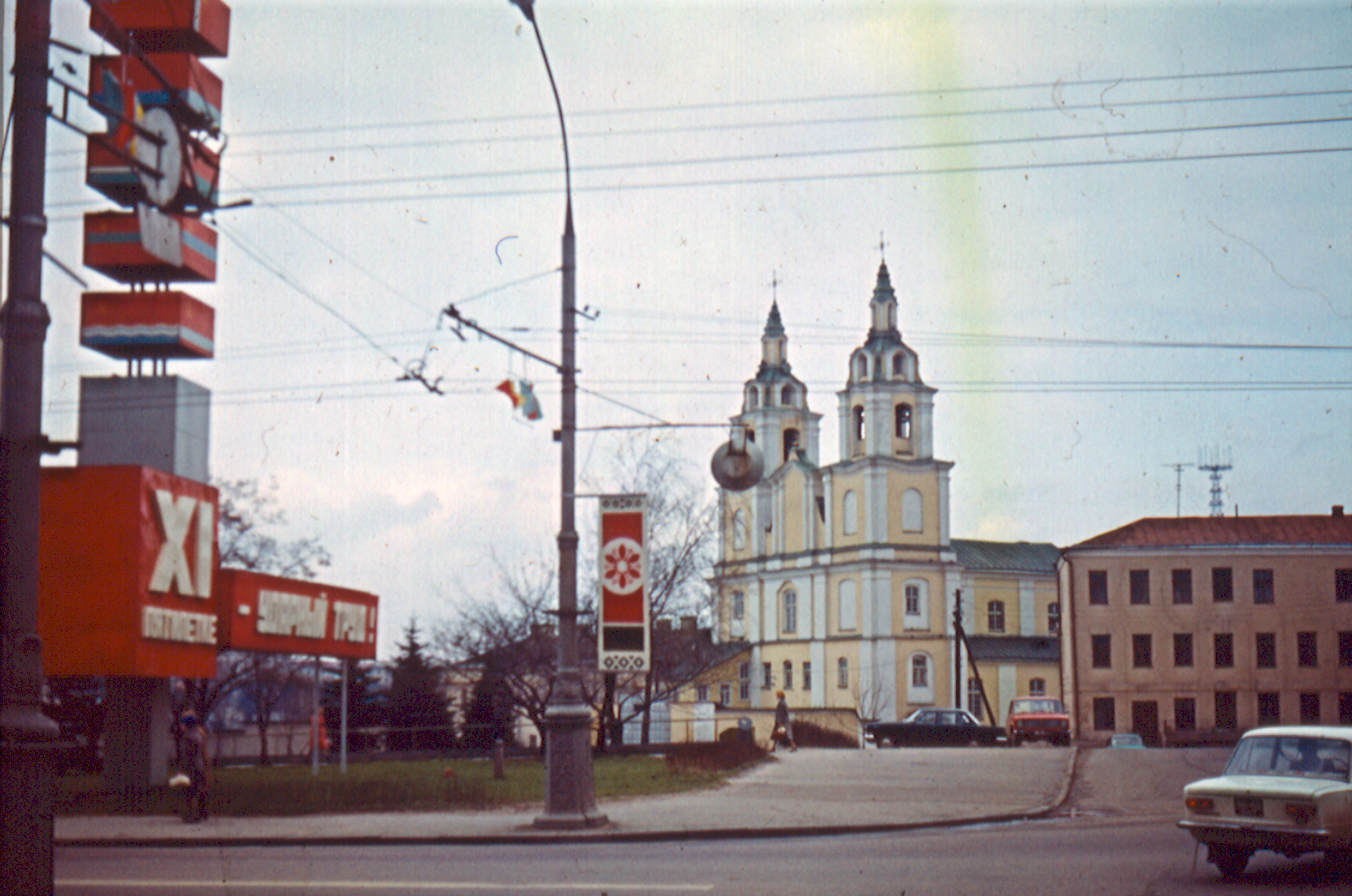 On a street in Minsk, Belorussian SSR, 1981. Holy Spirit Cathedral in the background.